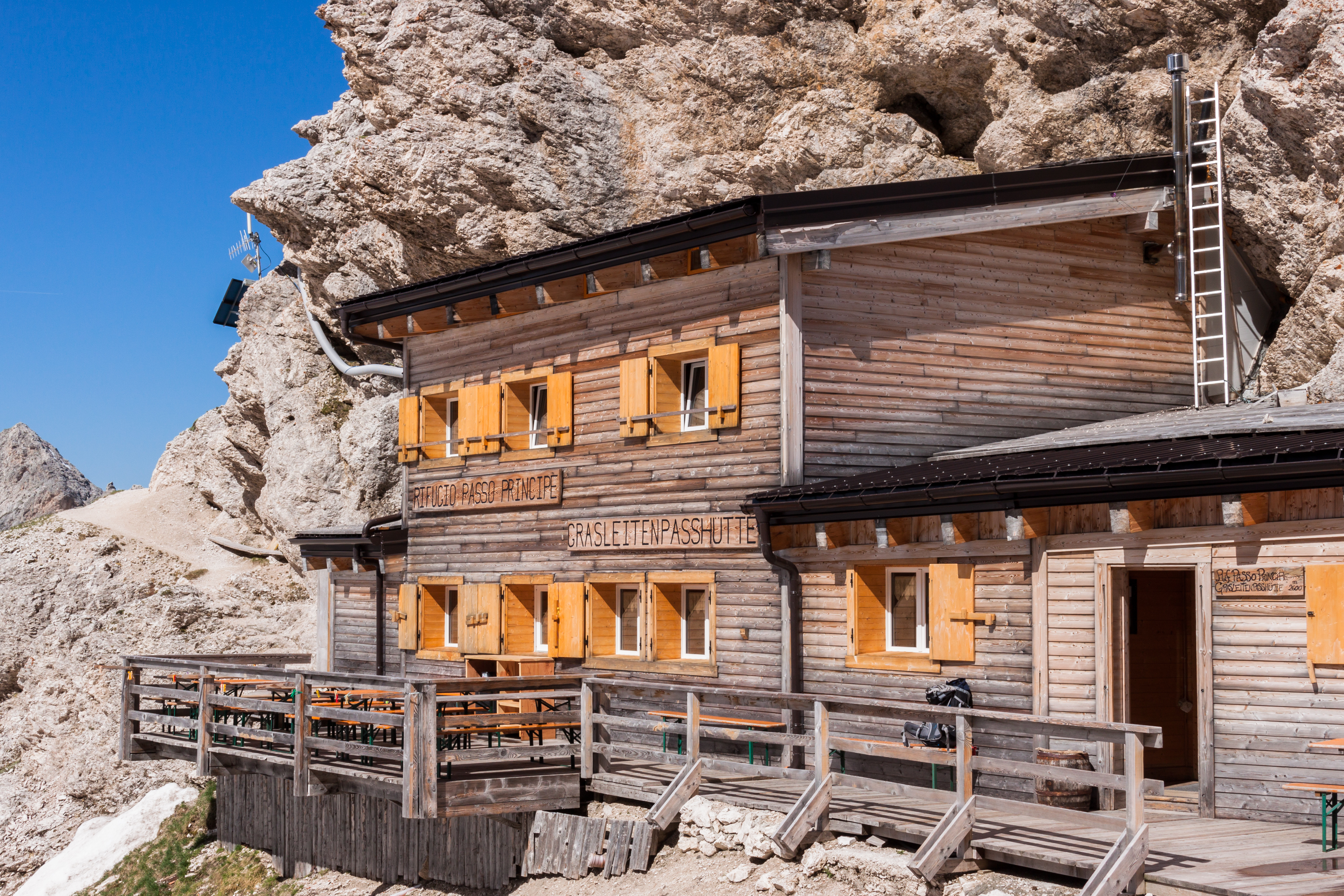 The Grasleitenpasshütte is an alpine refuge located in the Rosengarten group in the Italian dolomites.